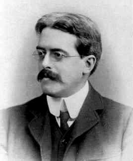 Depicted person: Thomas John I'Anson Bromwich – British mathematician